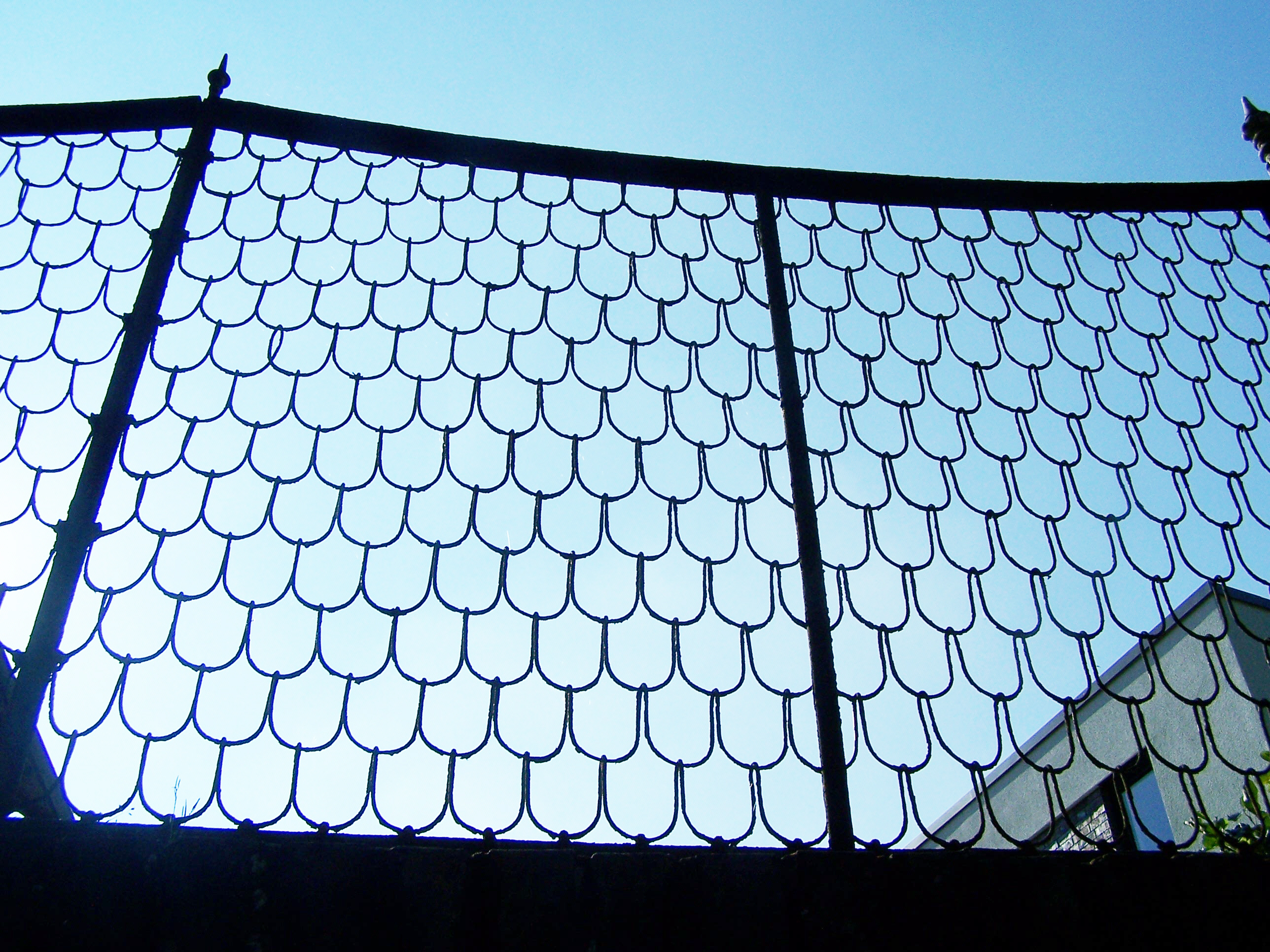 Wire netting - classical design, produced around 1900 and mounted in a garden in Eisenach, Germany.